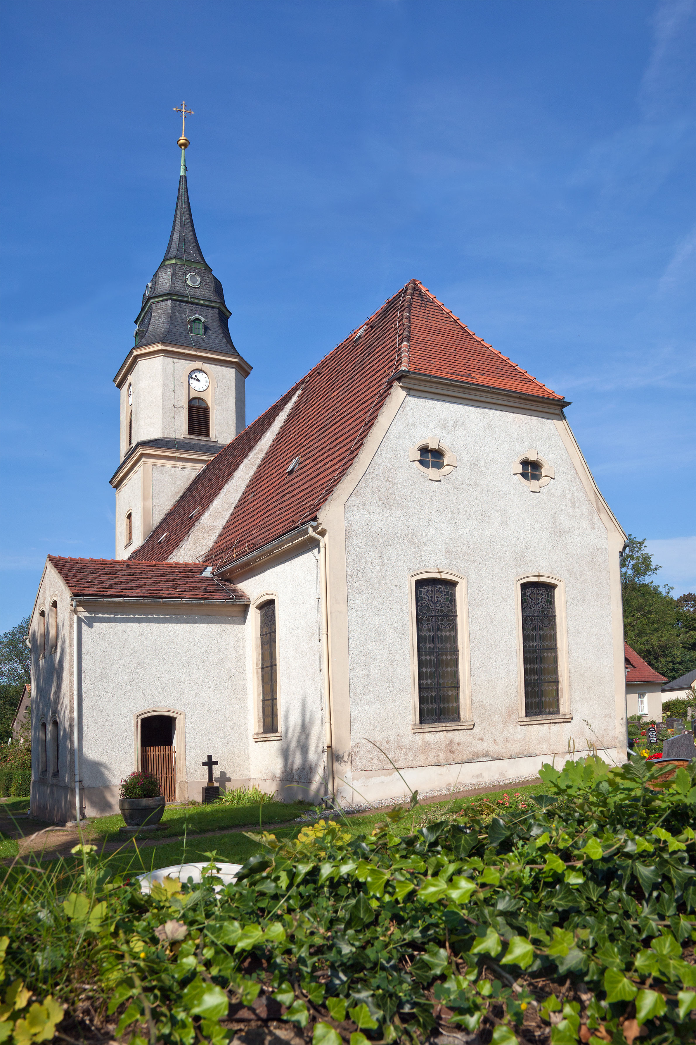 Reinsberg, Saxony, church